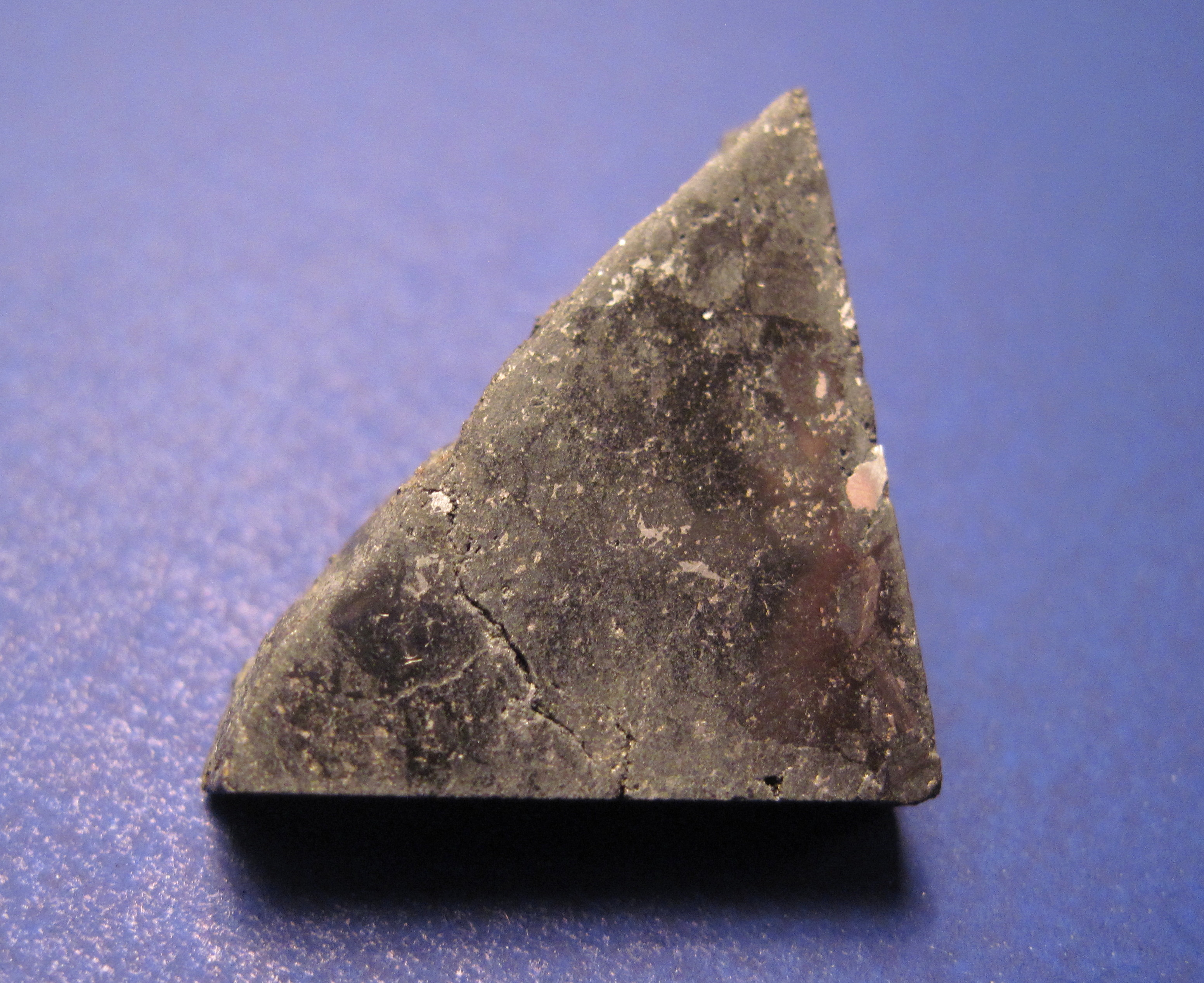 This important modern American fall took place on March 26, 2003, in the suburbs south of Chicago, Cook County, Illinois. A bright bolide was spotted over various parts of the midwest followed by sonic booms in the vicinity of the fall. Residents of the Park Forest community awoke to sounds of explosions as numerous fragments battered area homes, cars and other structures. This meteorite is classified as an L5 ordinary chondrite and the matrix varies from light to dark gray in appearance. This partial slice was cut from a piece found by Roman Jirasek and weighs 4.02 grams. It is an example of the "dark material" lithology and has a trace of fusion crust along one edge.